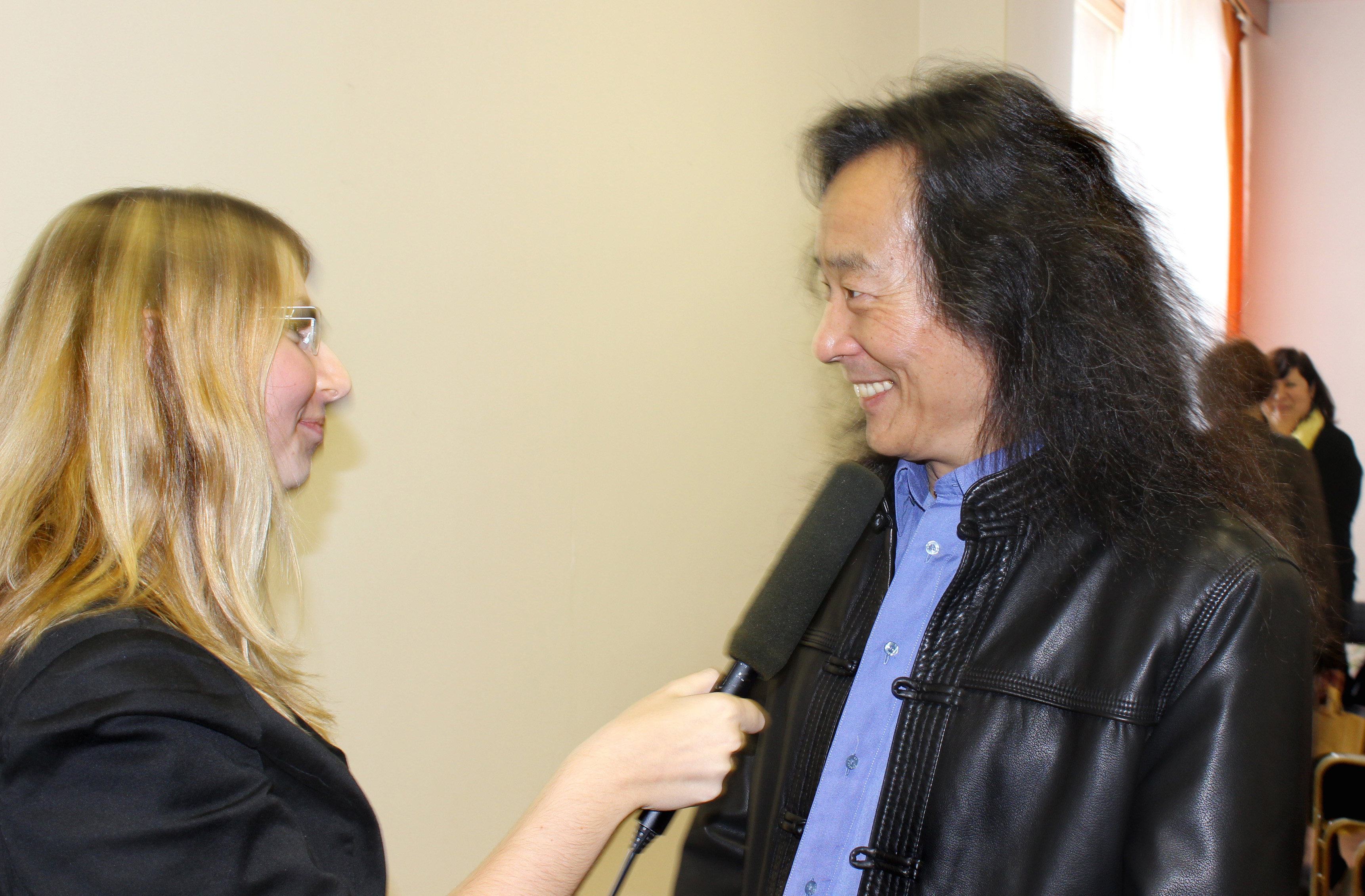 Chinese poet Yang Lian